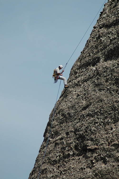 climbing in Montserrat (Catalonia, Spain)